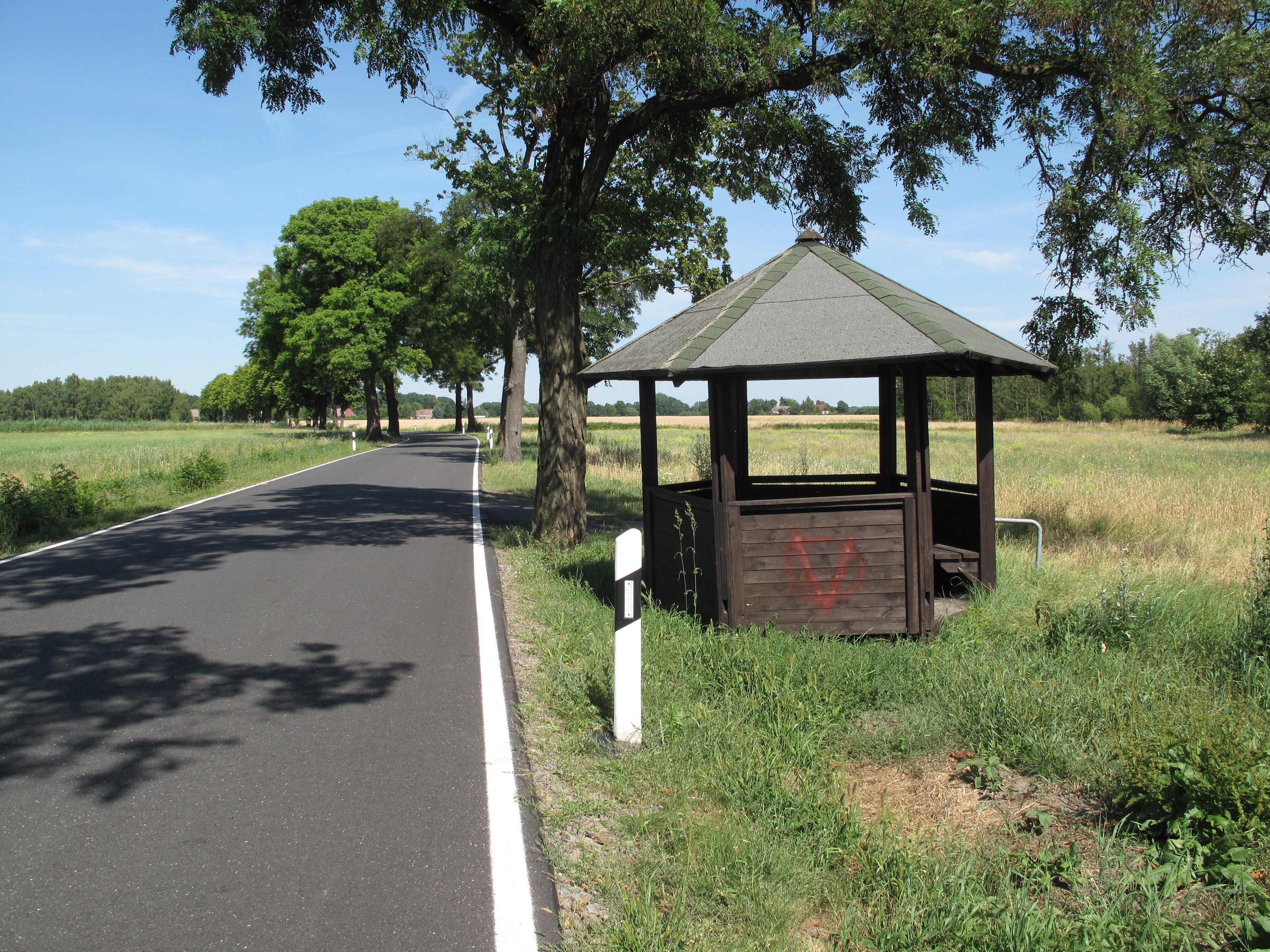 Landscape in Selchow at the Kreisstraße K 6746 in the Dahme-Heideseen Nature Park. The village Selchow is a part of the town Storkow, District Oder-Spree, Brandenburg, Germany. The village was first mentioned in 1321 and had on January 1, 2013 259 inhabitants.